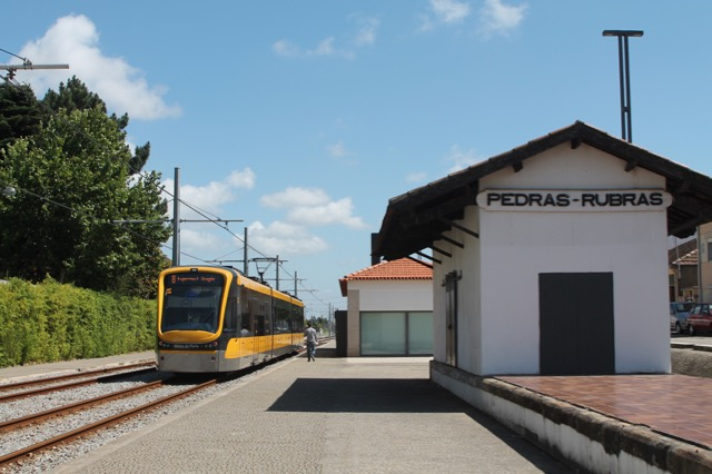 The old goods barn and station building of the extinct narrow gauge railway at the Pedras Rubras stop of the Metro do Porto